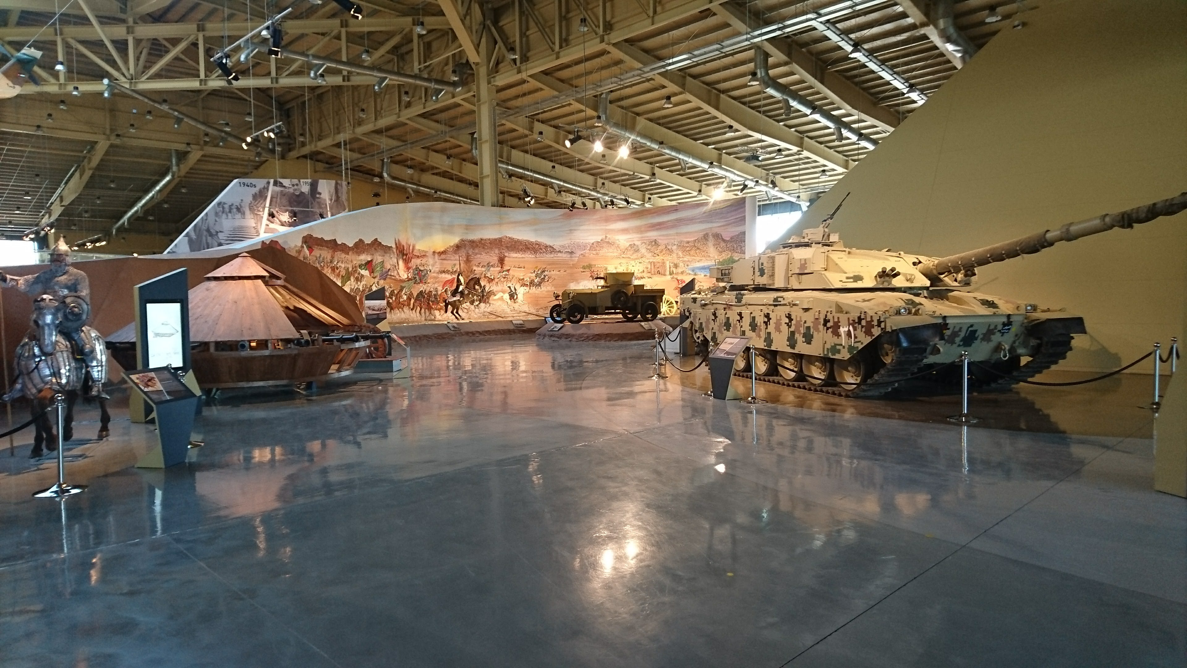 Royal Tank Museum, Amman - Jordan